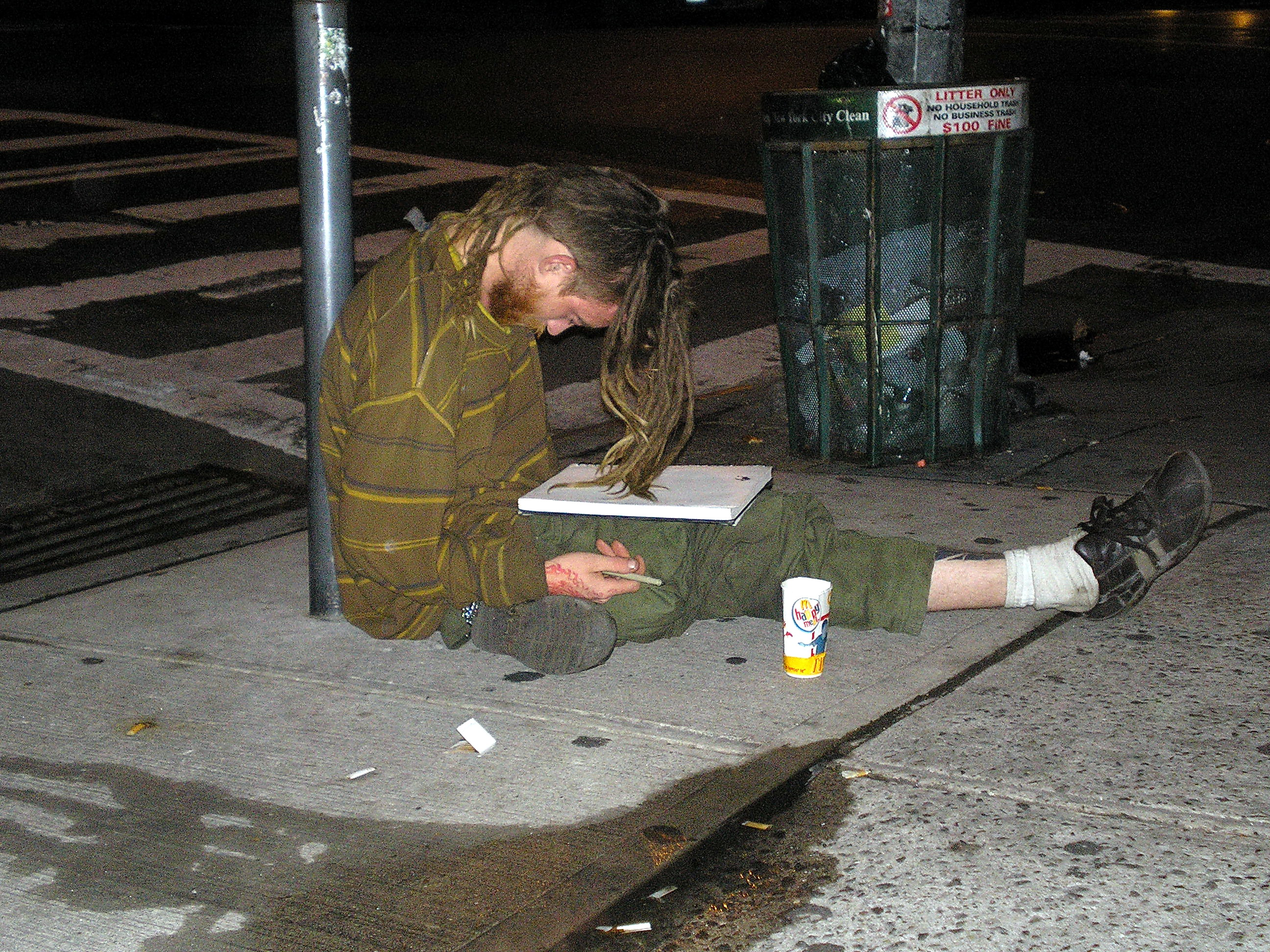 Street Sleeper 1 in New York City